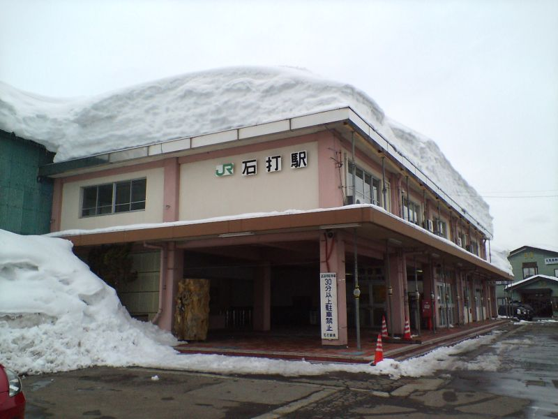 Ishiuchi Station, Minaiuonuma, Niigata, Japan